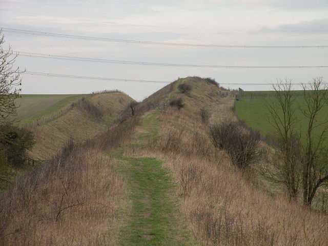 Devil's Dyke cuts the skyline There seems to be some disagreement about whether the feature is the Devil's Dyke or the Devil's Ditch - it can be seen here that the Devil has it both ways.